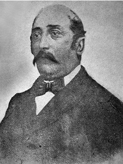 Georgian nobleman Prince Elizbar Eristavi